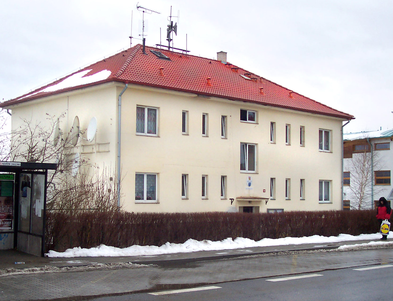 City Hall at Šeberov, Prague